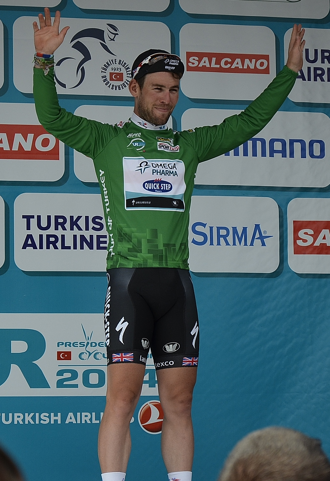 Mark Cavendish at Tour of Turkey 2014